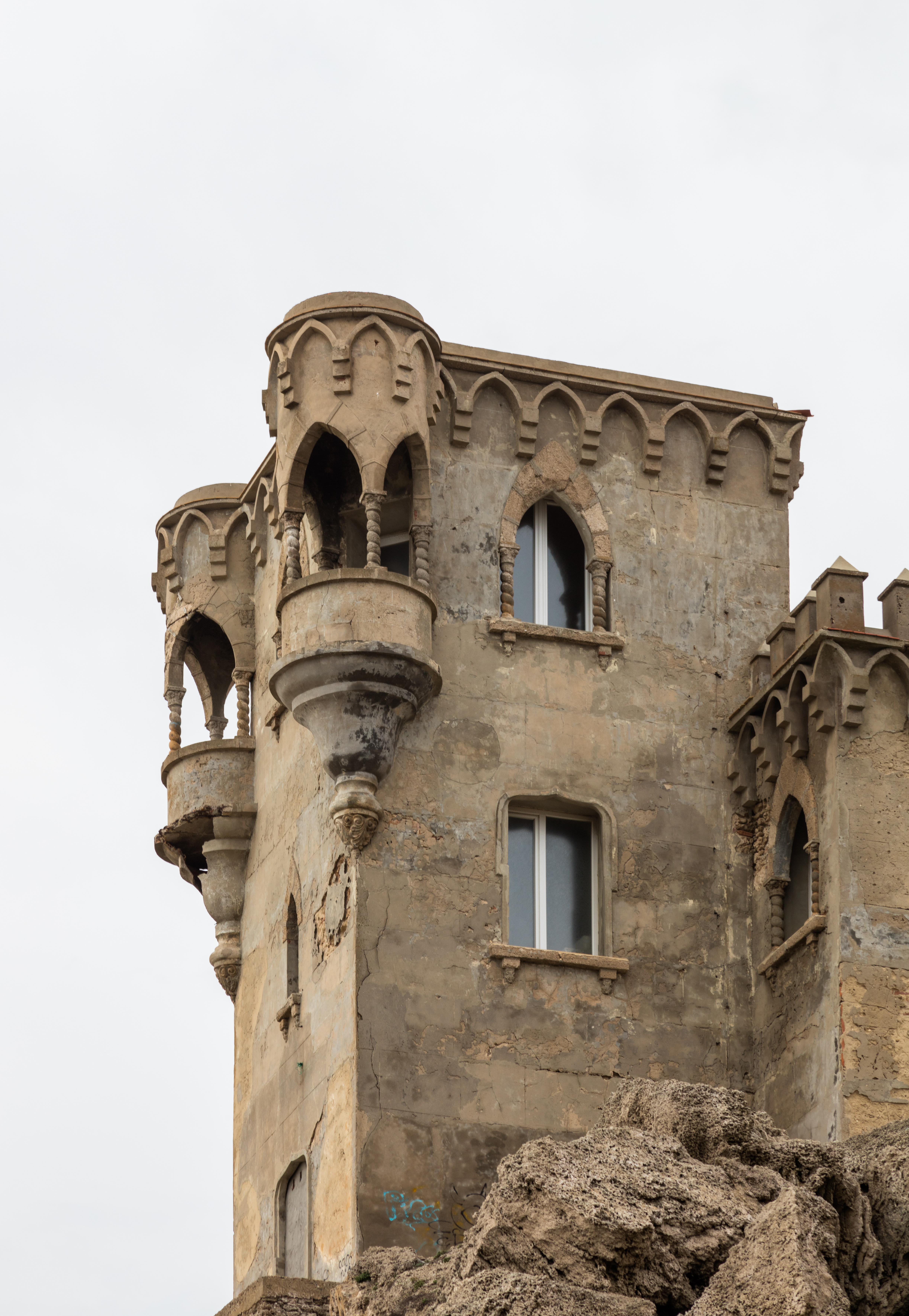 Castle of Santa Catalina, Tarifa, Cádiz, Spain